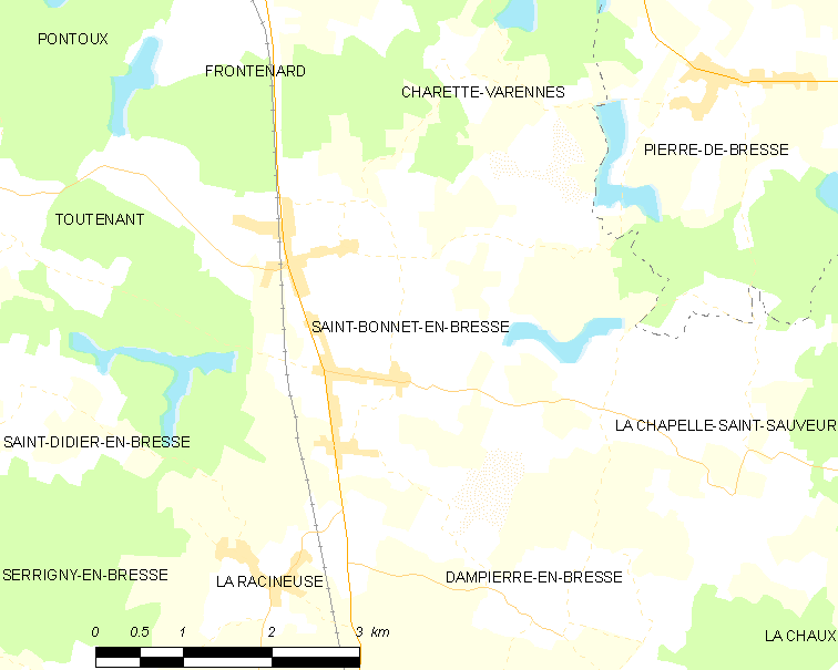 Map of French municipality